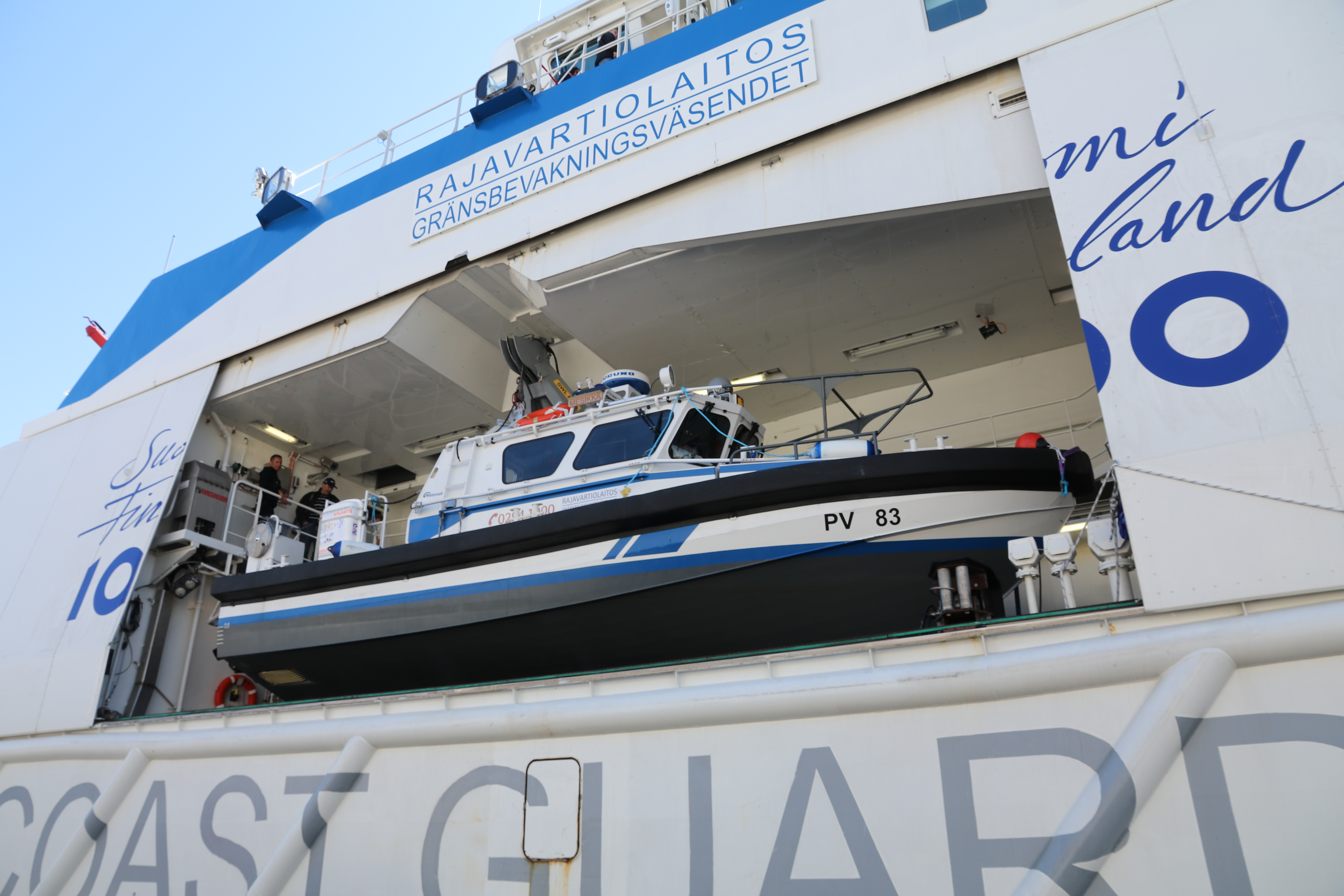 Finnish defence forces flag day 2017 naval review: Finnish coast guard offshore patrol craft Turva. Patrol boat PV83 in davit.